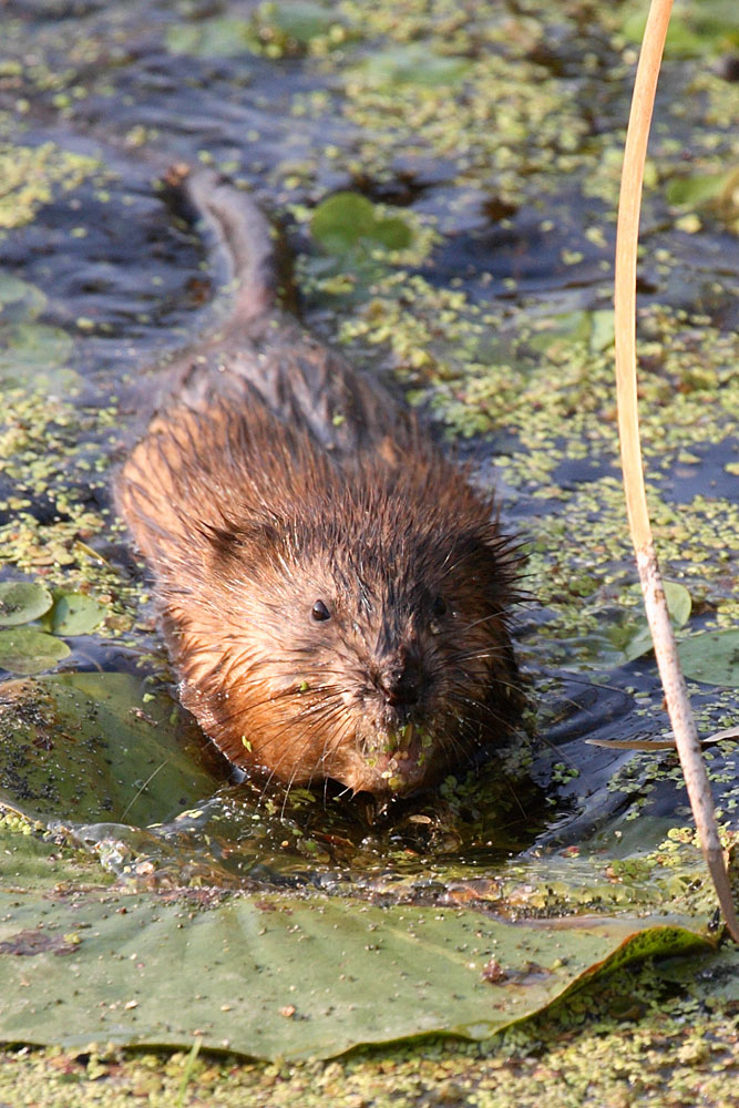 A muskrat in Lake Erie Metro Park – Brownstown, Michigan